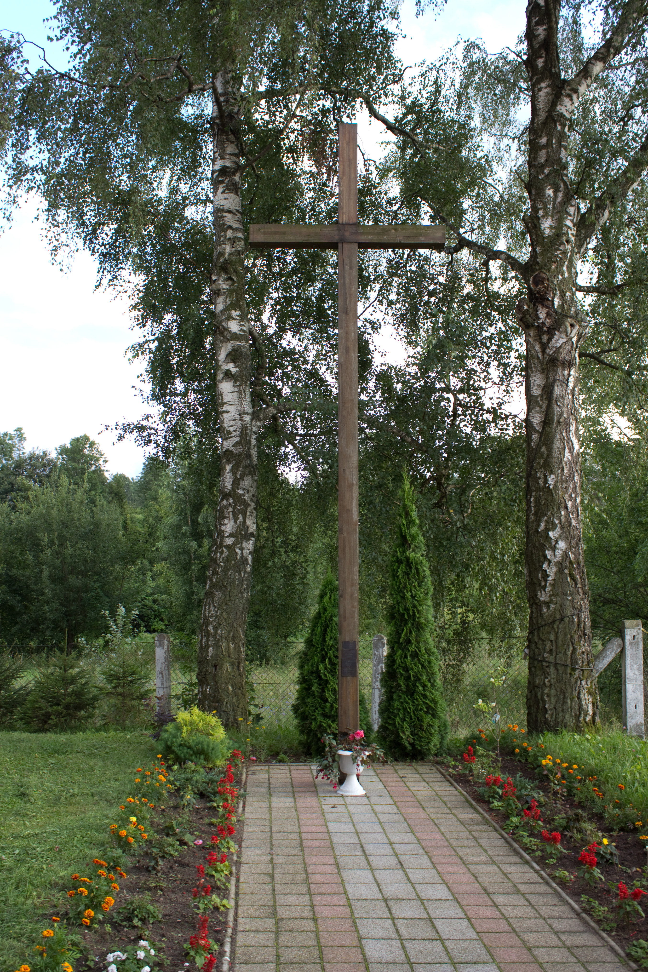 Wayside cross, Kraskowo, gmina Korsze, powiat kętrzyński, Warmian-Masurian Voivodeship